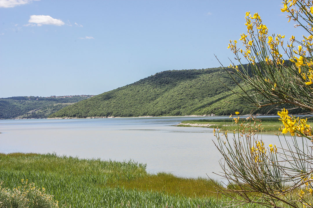 The mouth of Rasa river in Rasa bay